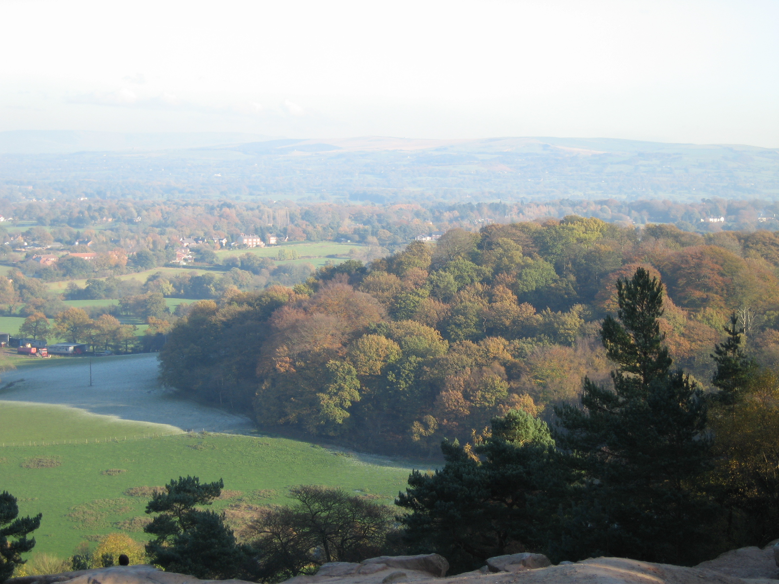 Cheshire Autumn from Stormy Point, Alderley Edge